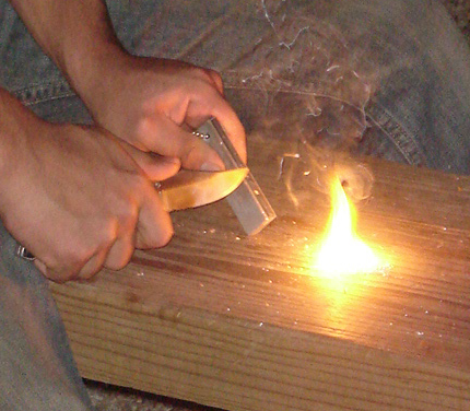 Photographic capture of a flame created by throwing flint sparks onto a small pile of magnesium shavings from a common emergency firestarter and pocketknife